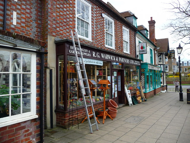 Wickham - Hardware Shop This long established hardware shop stands in the Square.